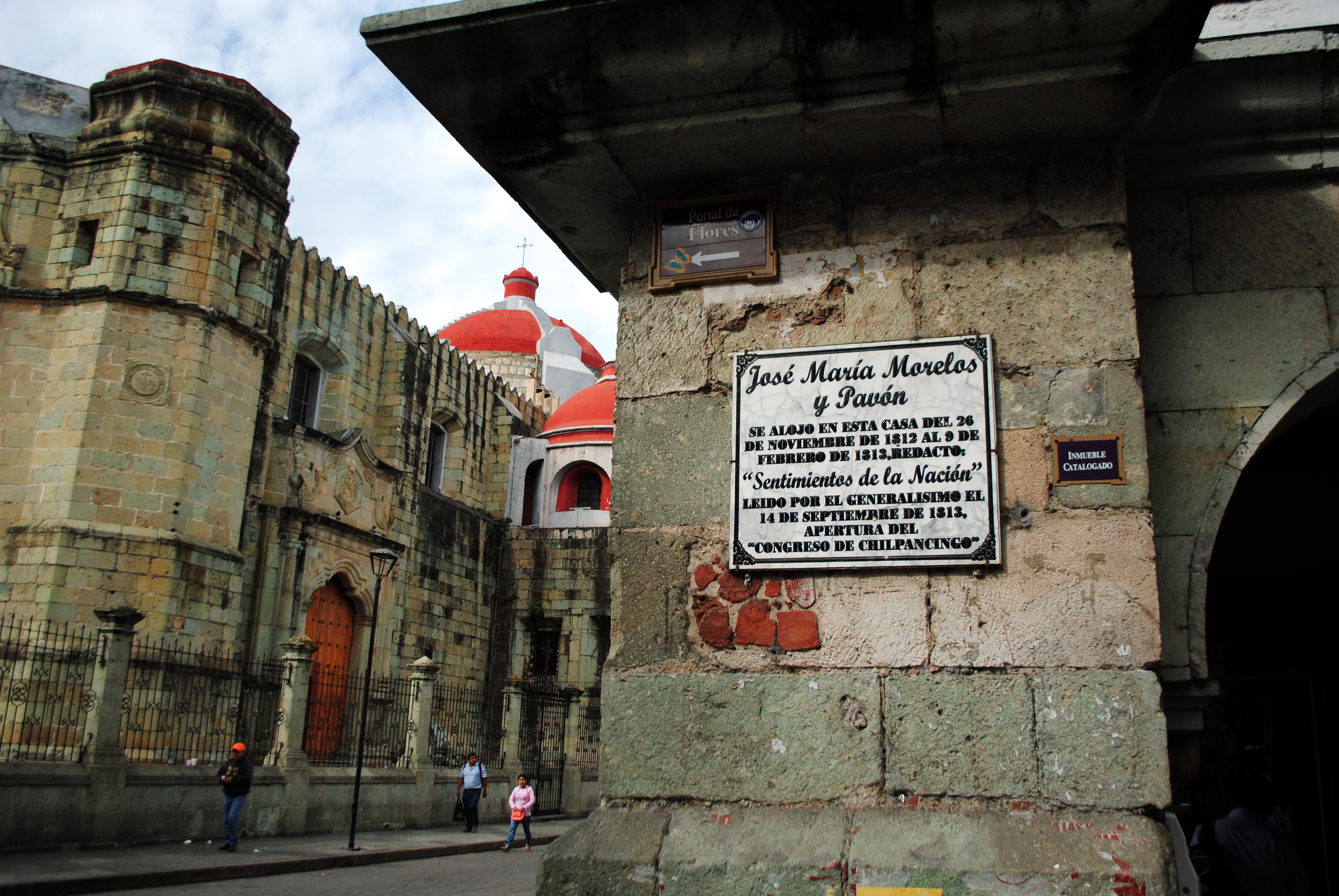 Plate indicating José María Morelos wrote Sentiments of the Nation between 1812 and 1813. Zocalo of Oaxaca City.